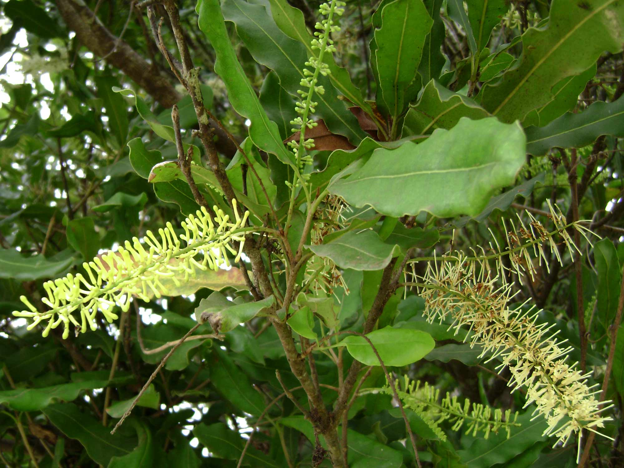 Macadamia integrifolia, commencing to flower; (nati) in a Tongan garden